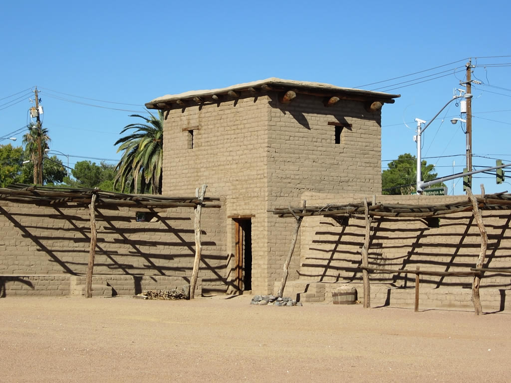 A portion of the Old Las Vegas Mormon Fort State Historic Park. The adobe tower and walls have been rebuilt on the original site to appear as they were in 1855.